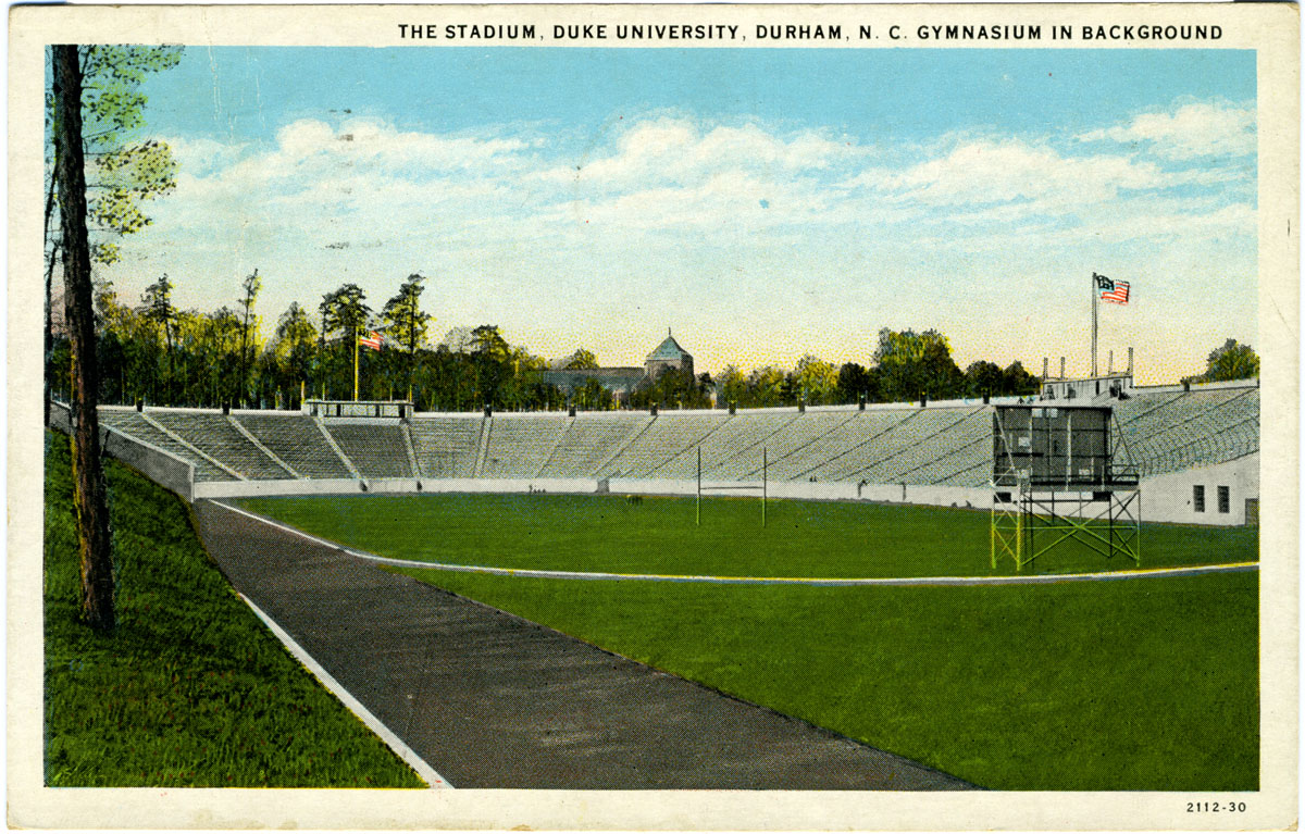 View of the football stadium (now Wallace Wade Stadium) at Duke University. The card is numbered 2112-30. Digital Collection North Carolina Postcards Publisher Rose Agency, Inc., Durham, N.C. Date 1932 Location Durham (N.C.); Durham County (N.C.); Collection in Repository North Carolina Postcard Collection (P052), North Carolina Collection Photographic Archives, Wilson Library, UNC-Chapel Hill